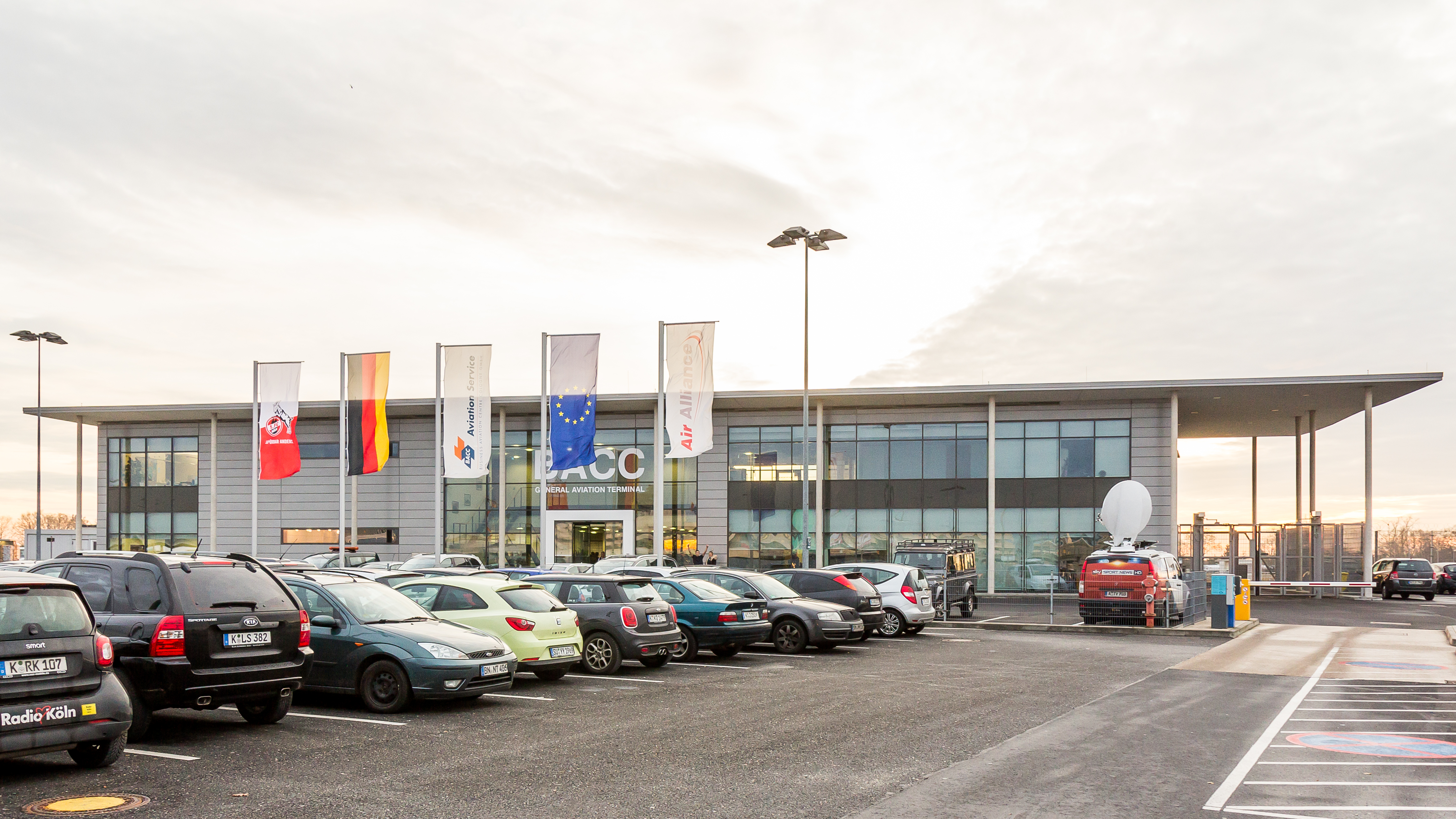 General Aviation Terminal - Cologne Bonn Airport